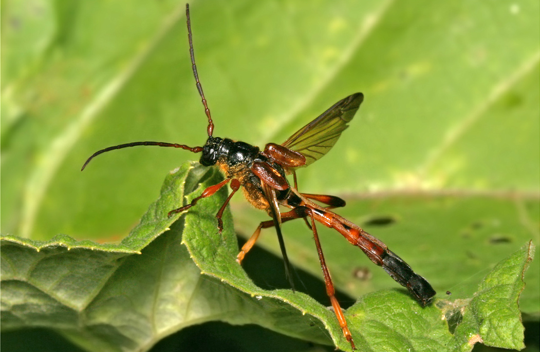 Flying up bug. The Volgograd region, Kamyshinsky area, beam Danilovsky